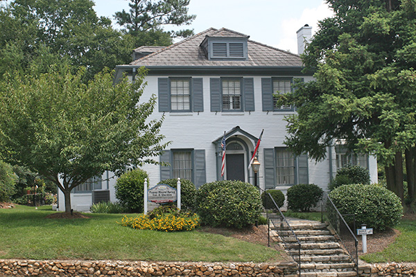 Built by Wiley Cozart in 1927. Currently the Fuquay Mineral Spring Inn located at 333 S. Main Street in Fuquay-Varina, North Carolina.